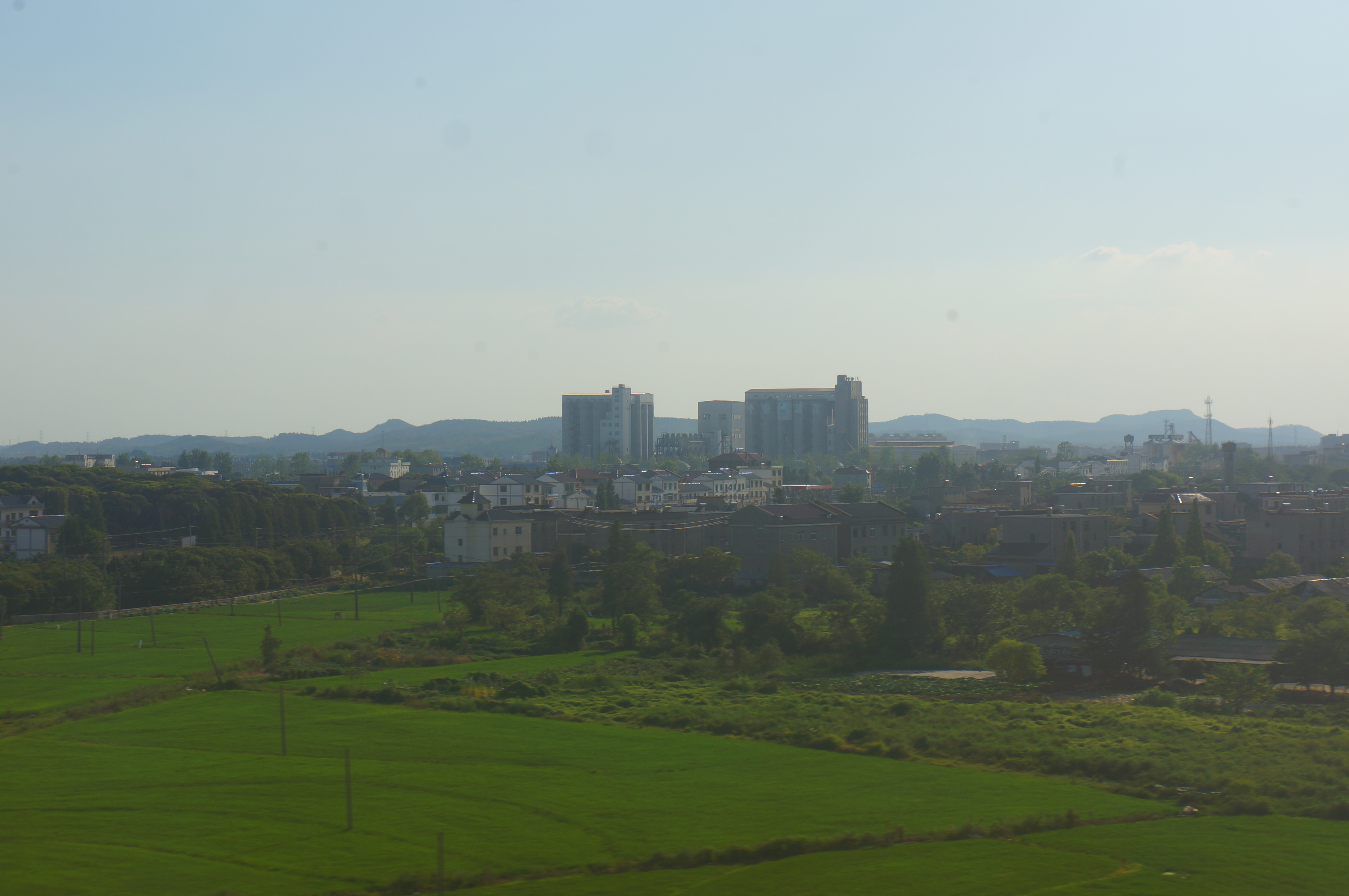 201608 Wenzhen, Nanchang. Wenjiazhen Railway Station is hidden by those houses